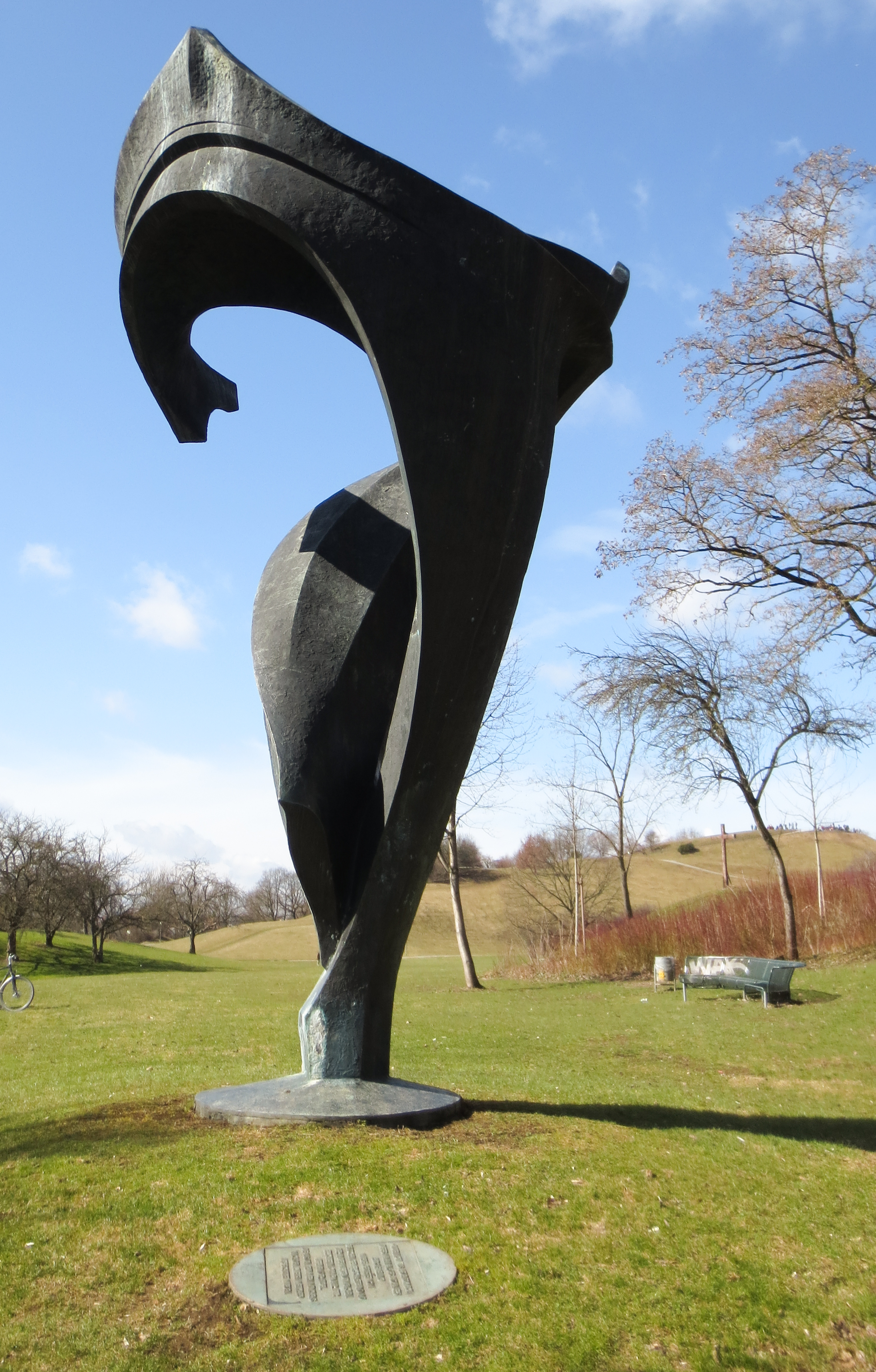 Blossom-Theme of Rudolf Belling. It's also called "Schuttblume". It is a memorial for the civil victims of the aerial warfare.